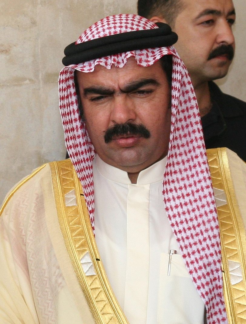 Cropped image of Ahmed Abu Risha, an Iraqi Sheikh and politician.